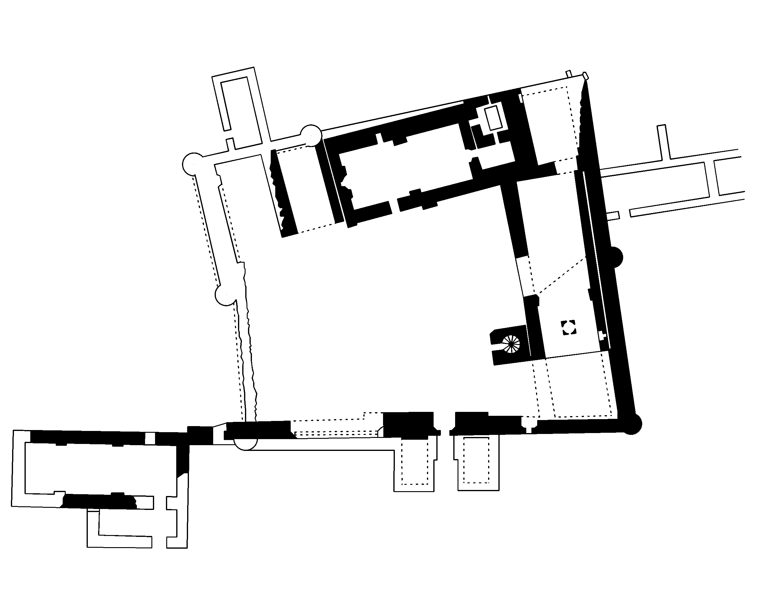 Plan of Stronghold of Hanega, Source: Corvina Kiadó, Ilona Turánsky, Károly Gink: Aserbaidschan - Paläste, Türme, Moscheen. Budapest 1980, deutsch von Tilda und Paul Alpári.